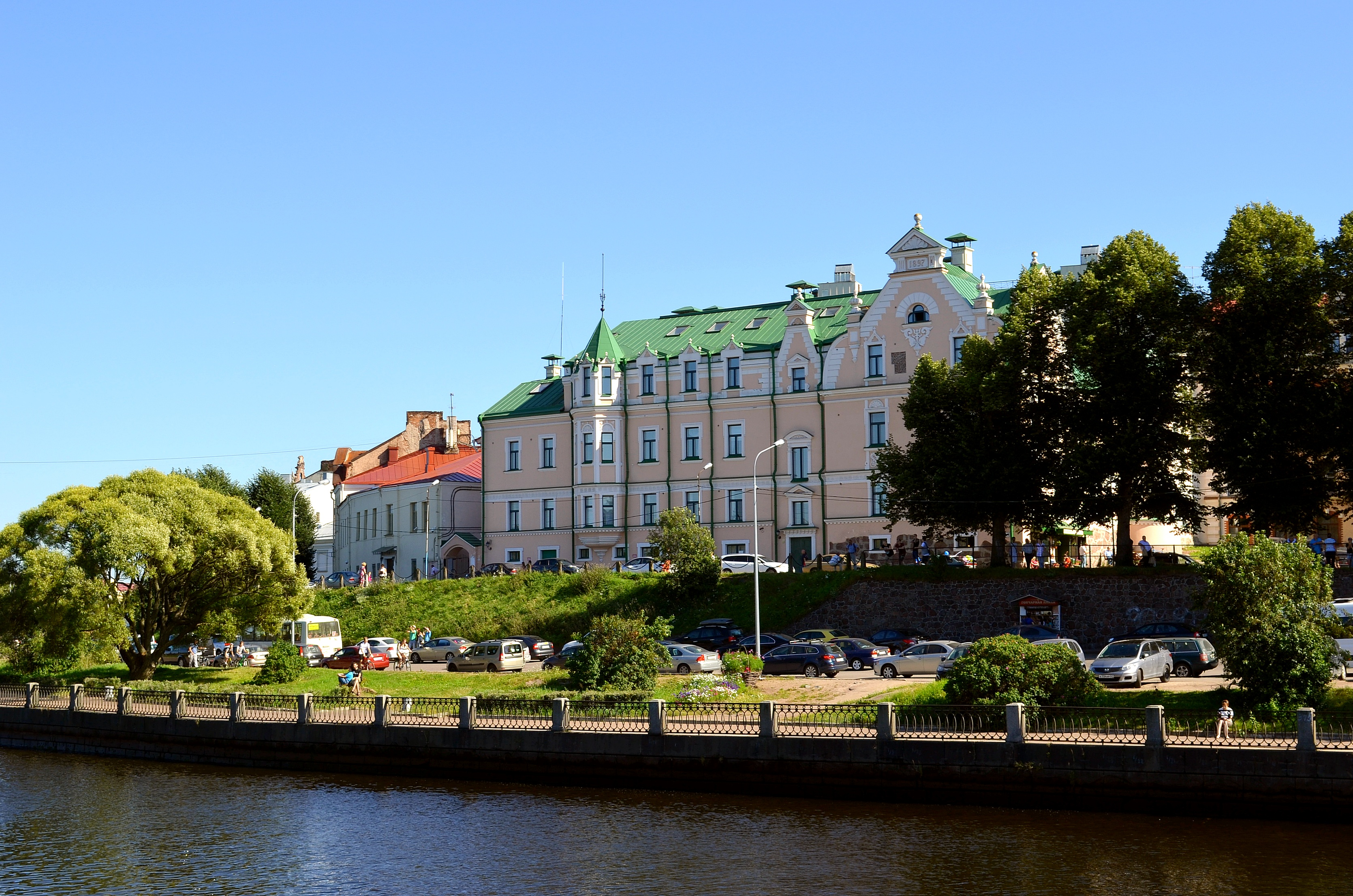 Vyborg. The Northern shaft street, 3. House Vekruta